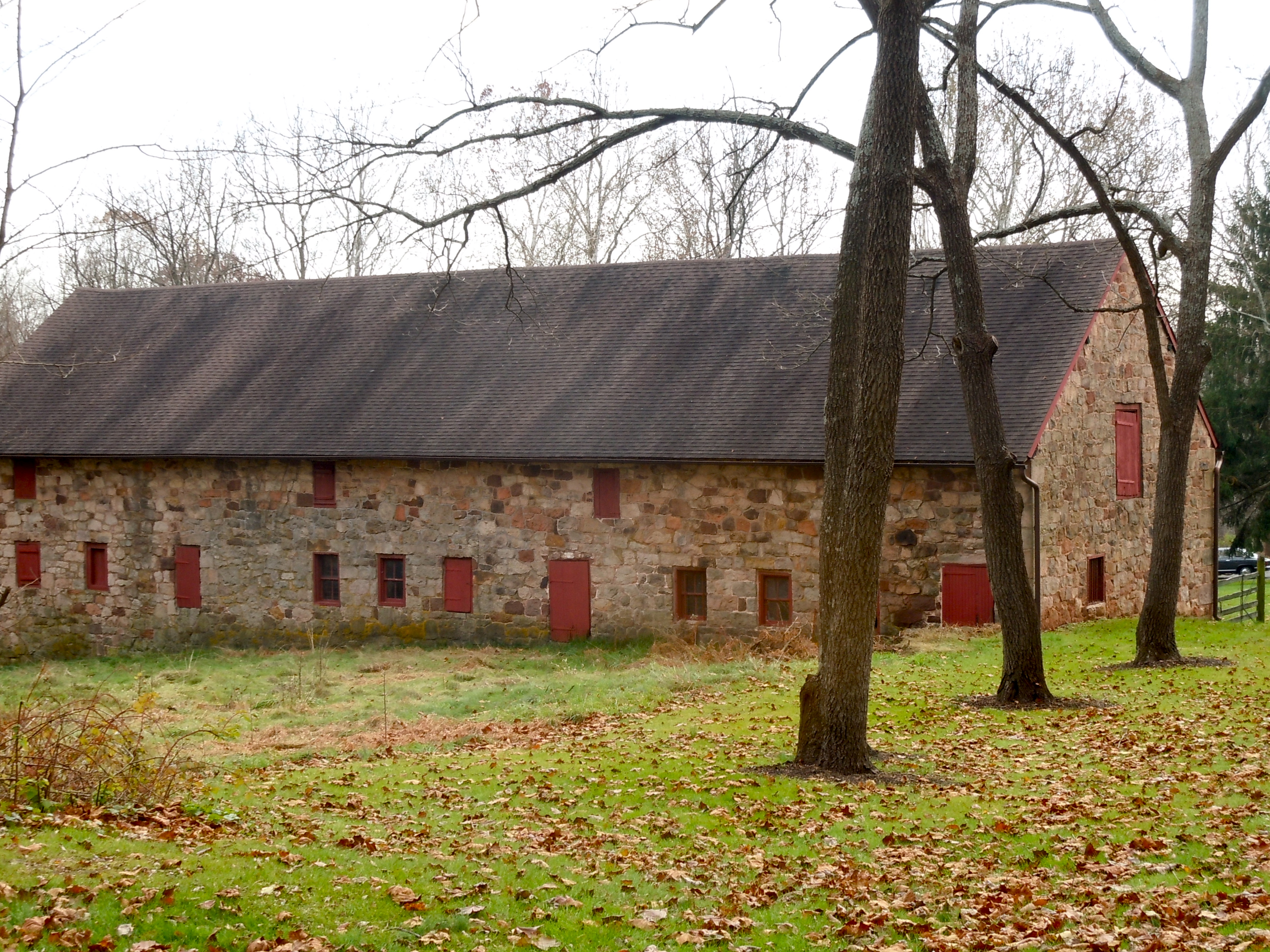 Stable at National Historic Landmark, the Stiegel-Coleman House on the NRHP since November 13, 1966. On Pennsylvania Route 501 and U.S. Route 322, north of Brickerville, Elizabeth Township, Lancaster County, Pennsylvania. Mansion and old iron furnace from 1700s